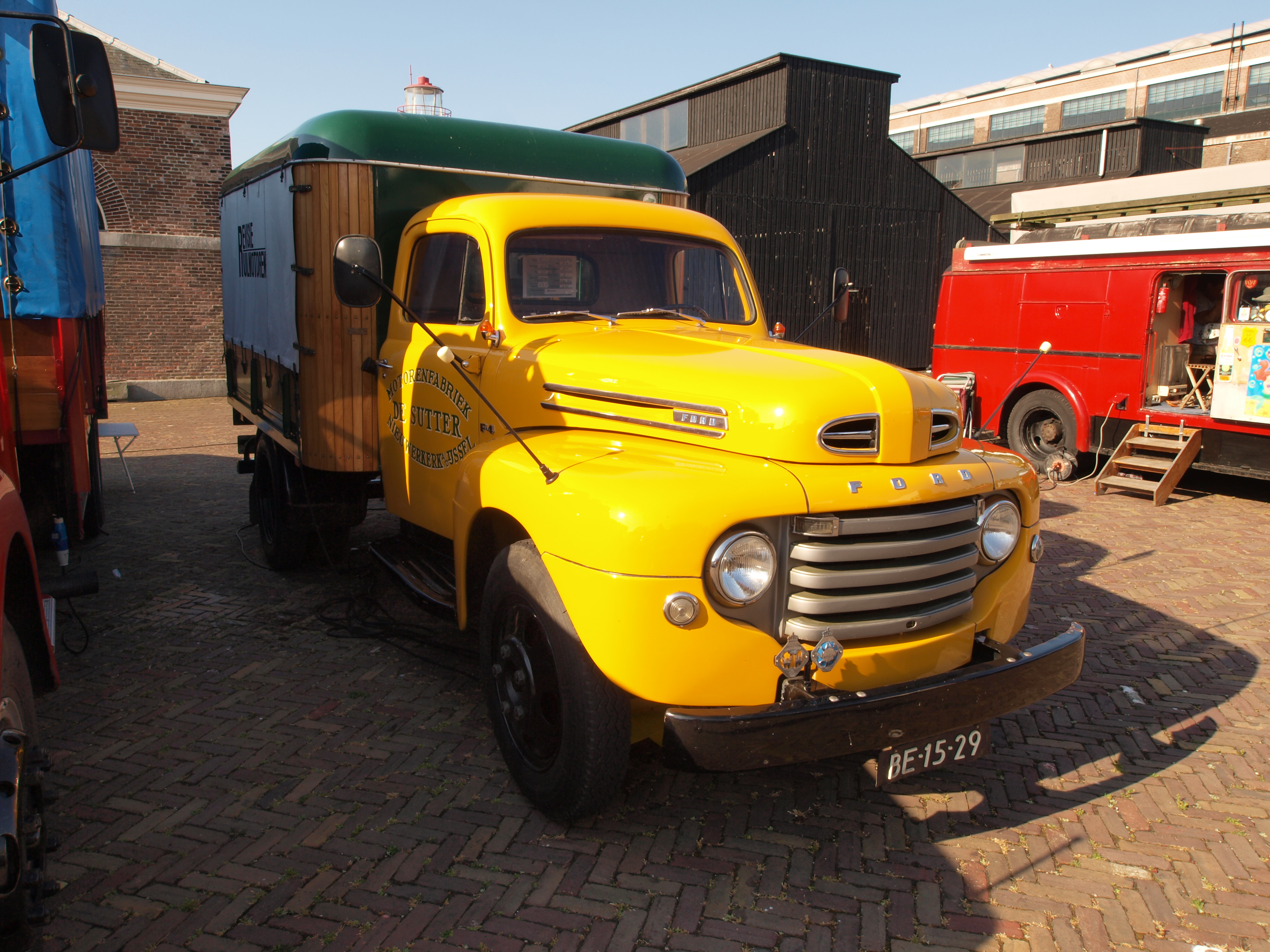 Photographed at Den Helder, The Netherlands. OLYMPUS DIGITAL CAMERA